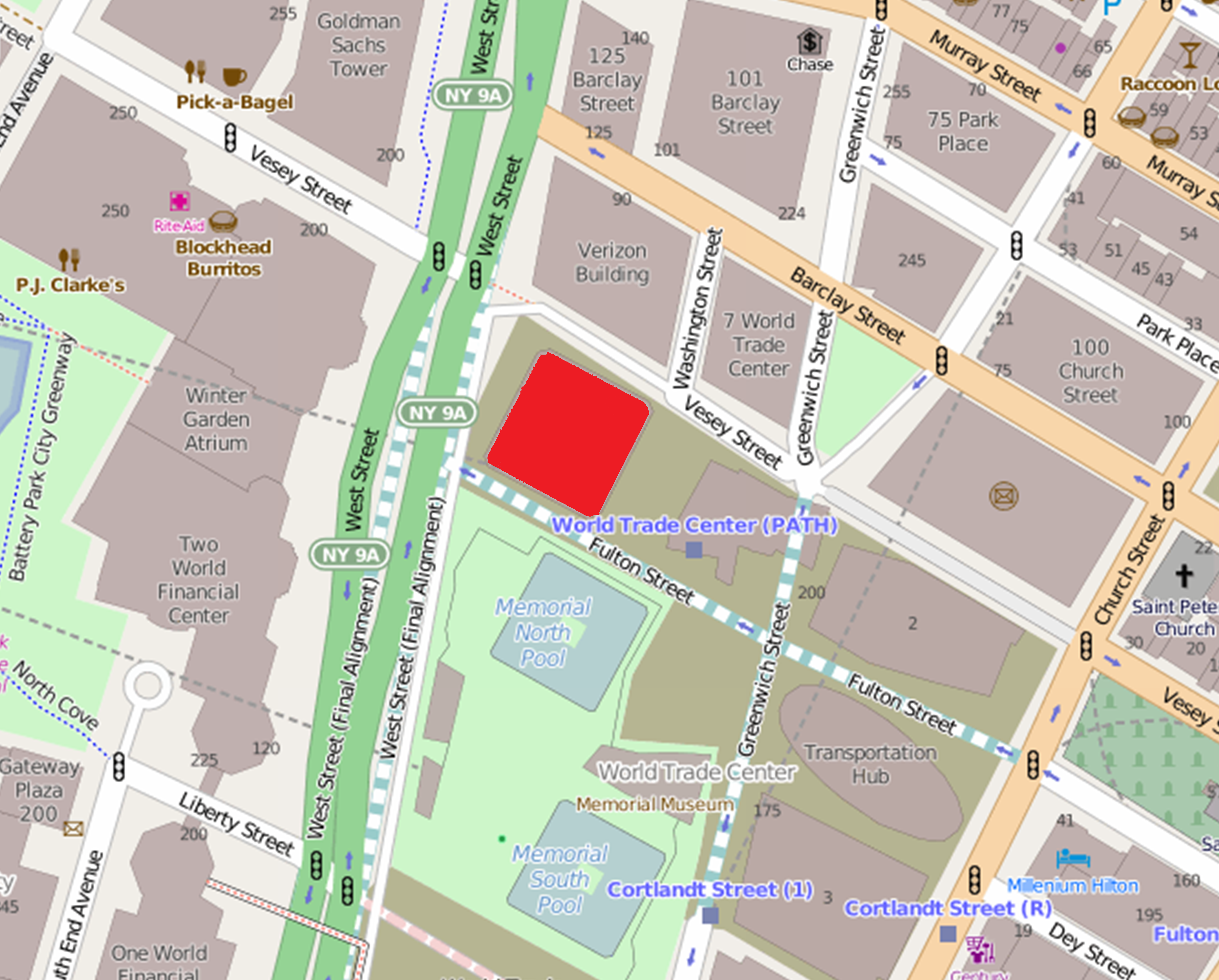 Map of the area of 1 WTC with that building in red.